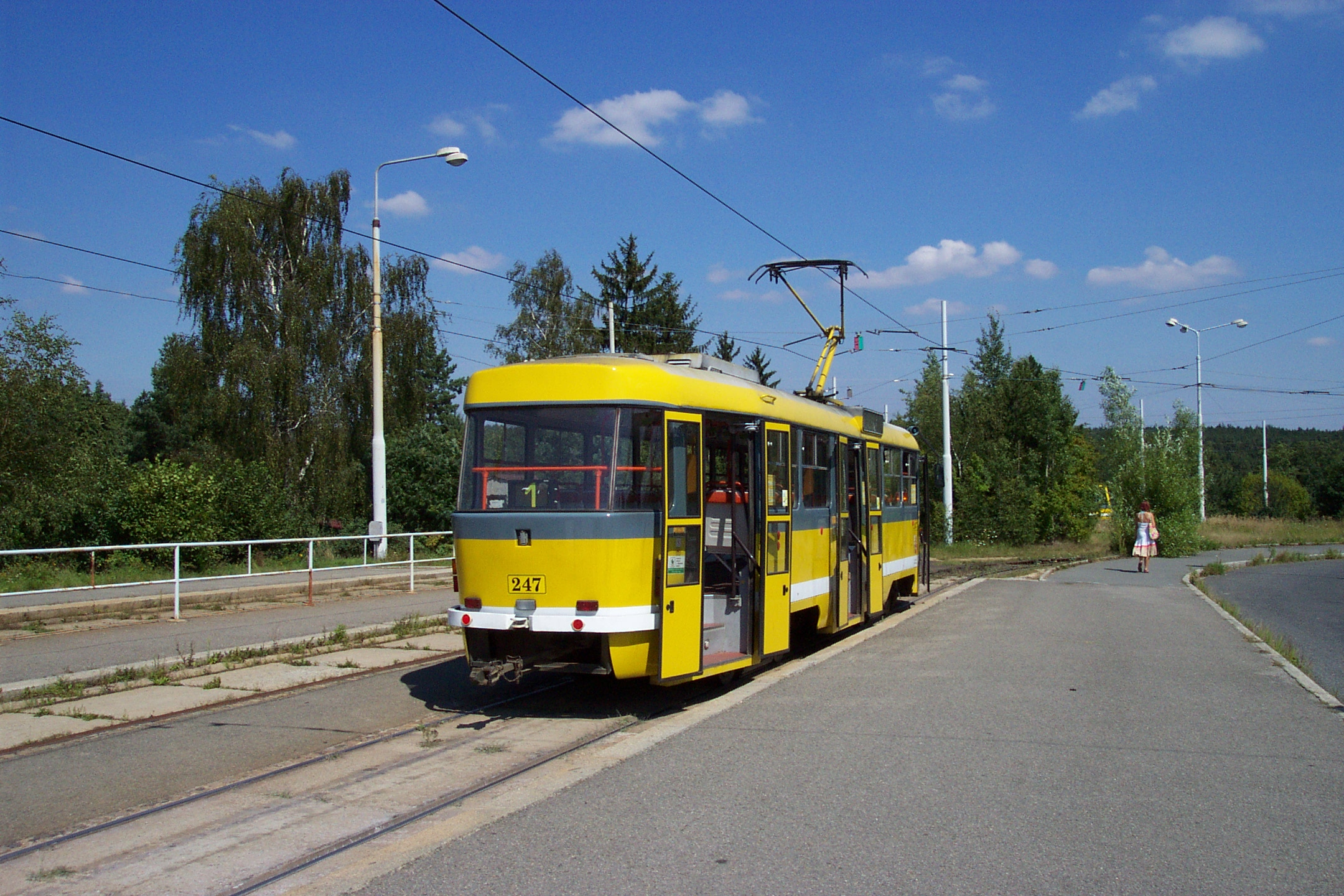 Modernised T3 tram in Pilsner Bolevec, CZ